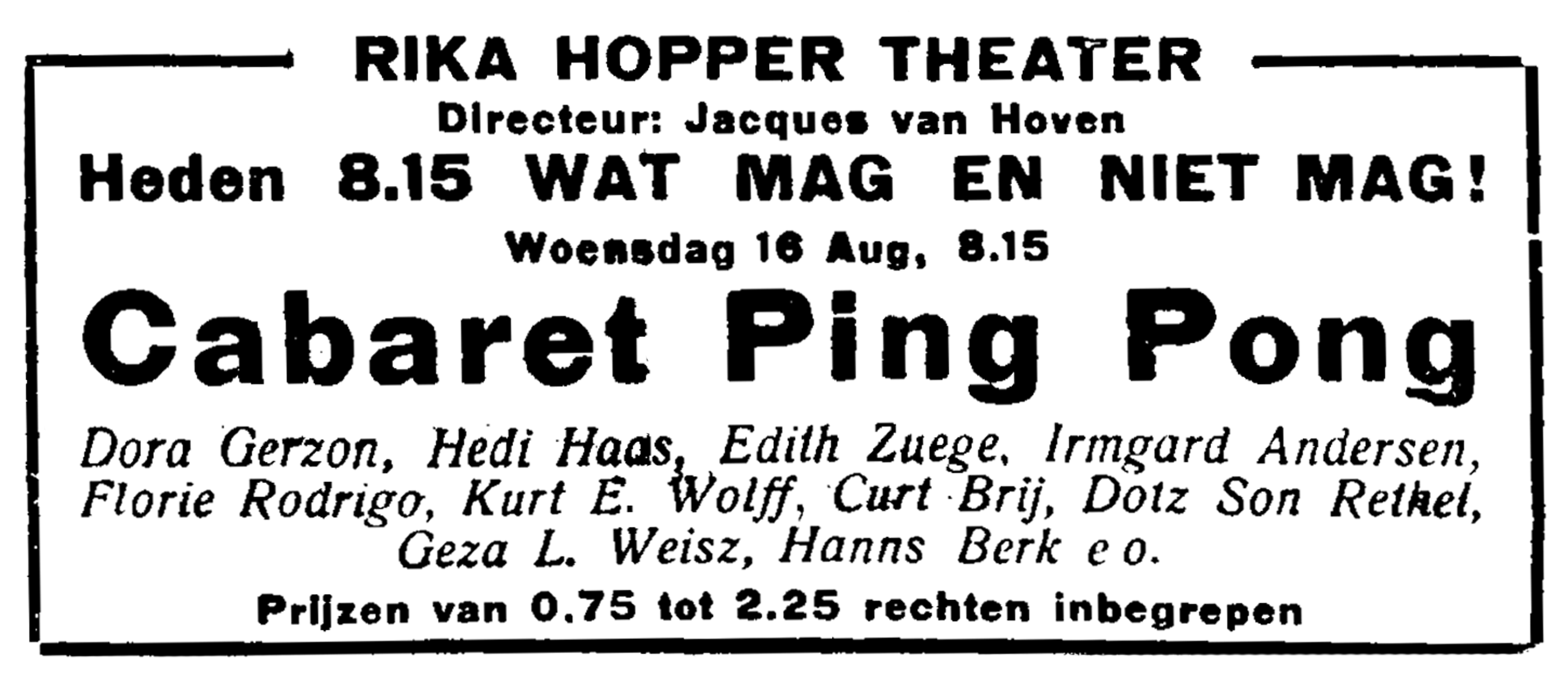 Advertisement for Ping-Pong Cabaret 1933